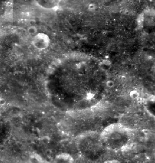 Foster lunar crater - Clementine image